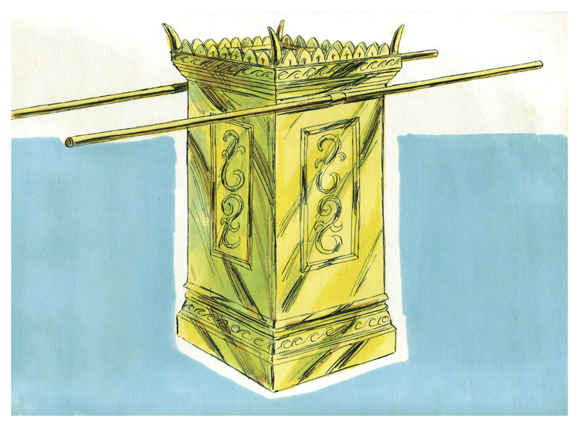 Biblical illustration of Book of Exodus Chapter 31